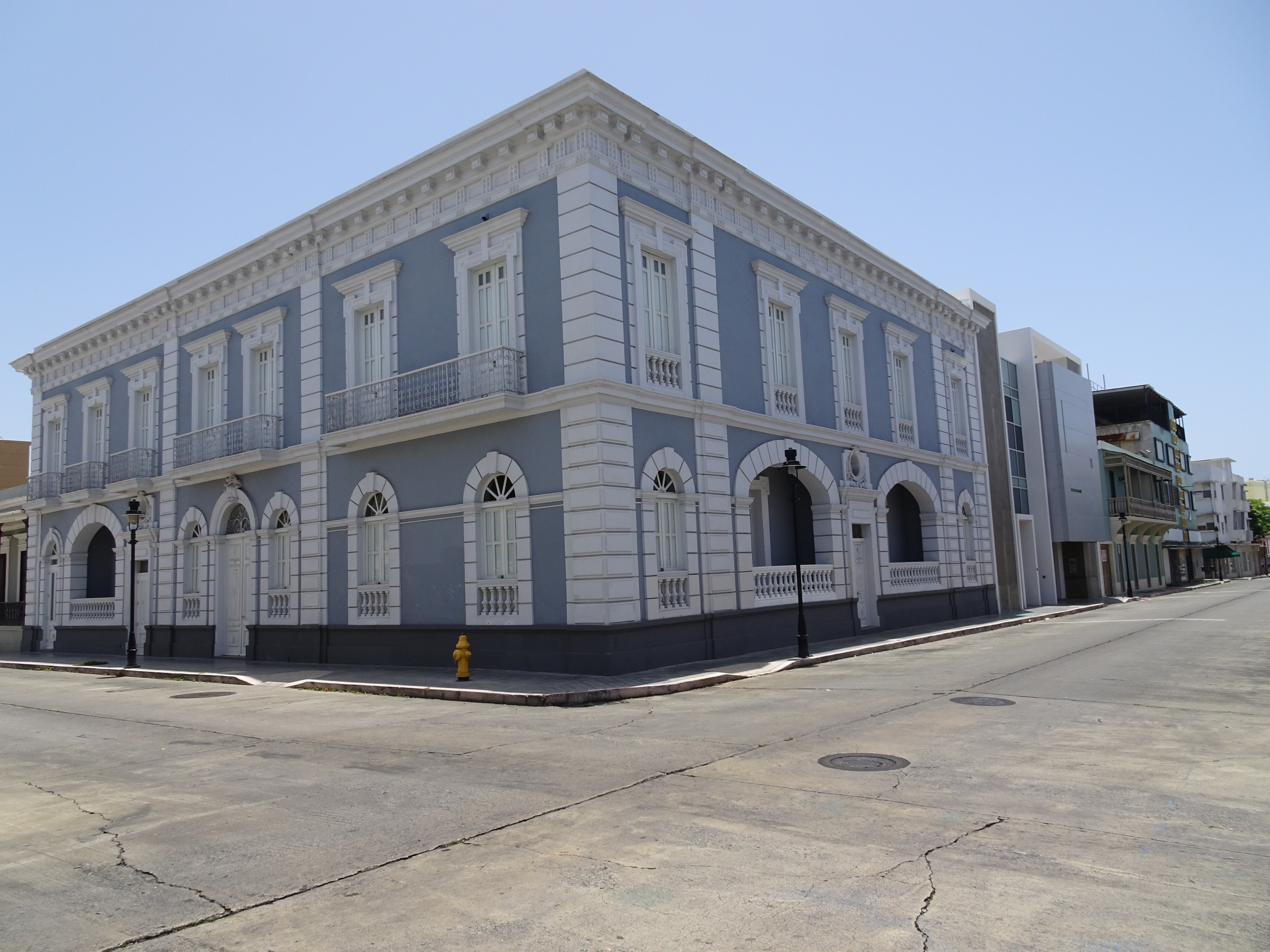 Fundación Biblioteca RHC, Edificio histórico y Edificio nuevo, Bo. Quinto, Ponce, PR